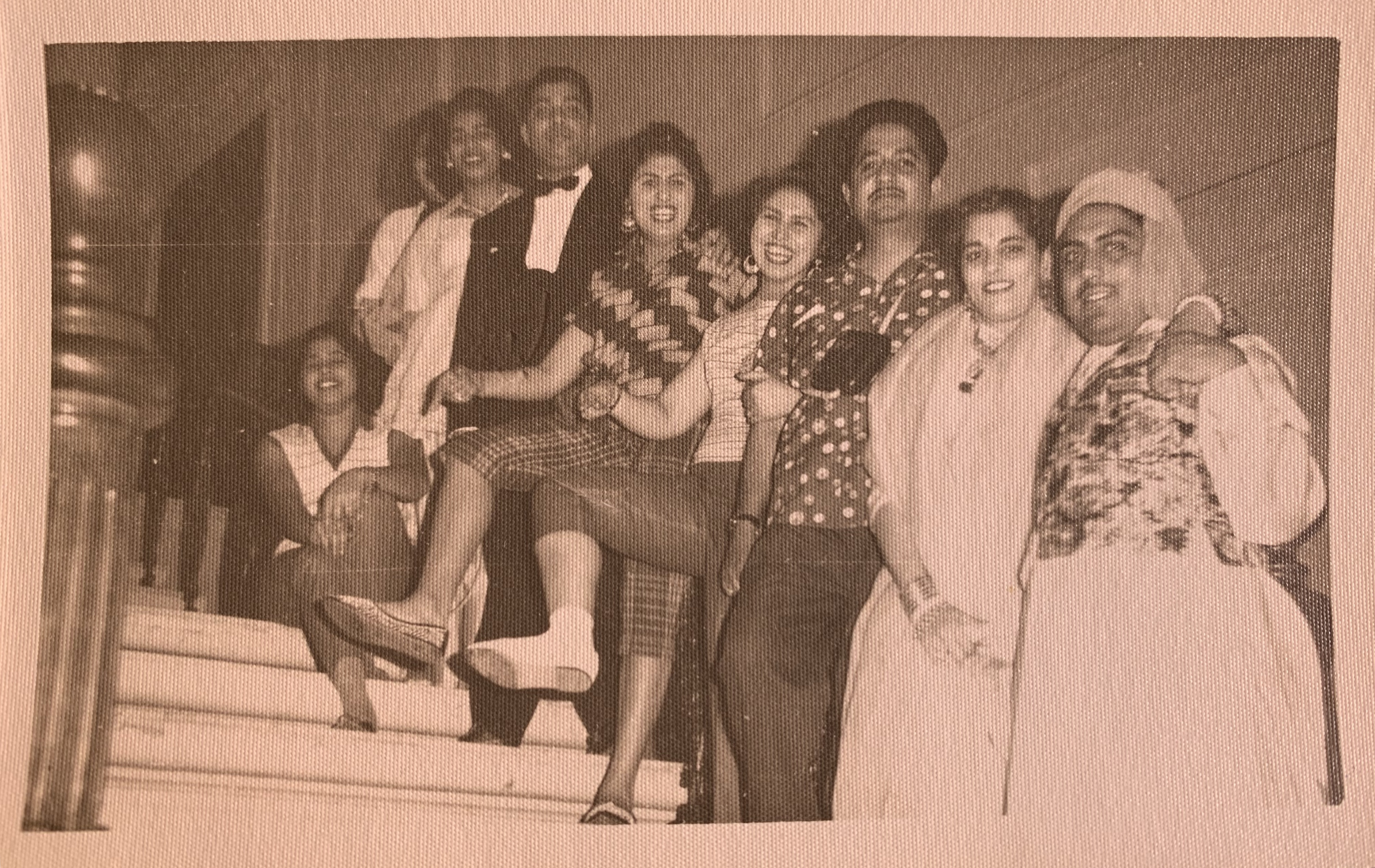 Sindhis joining in the Maltese Carnival fun! 25/02/1960. Courtesy of Raj Vaswani, Gopaldas, Malta